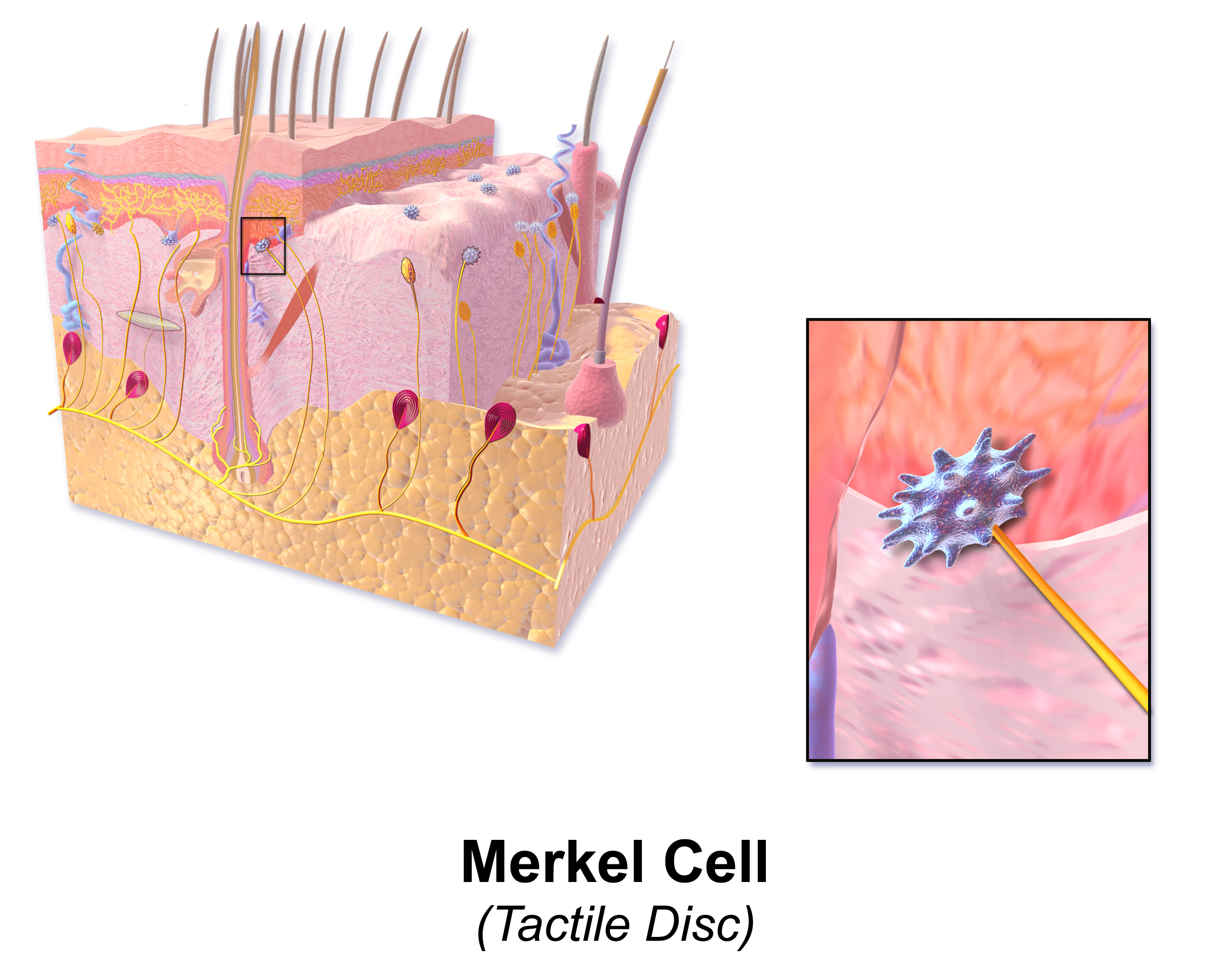 Merkel Cell. See a full animation of this medical topic.